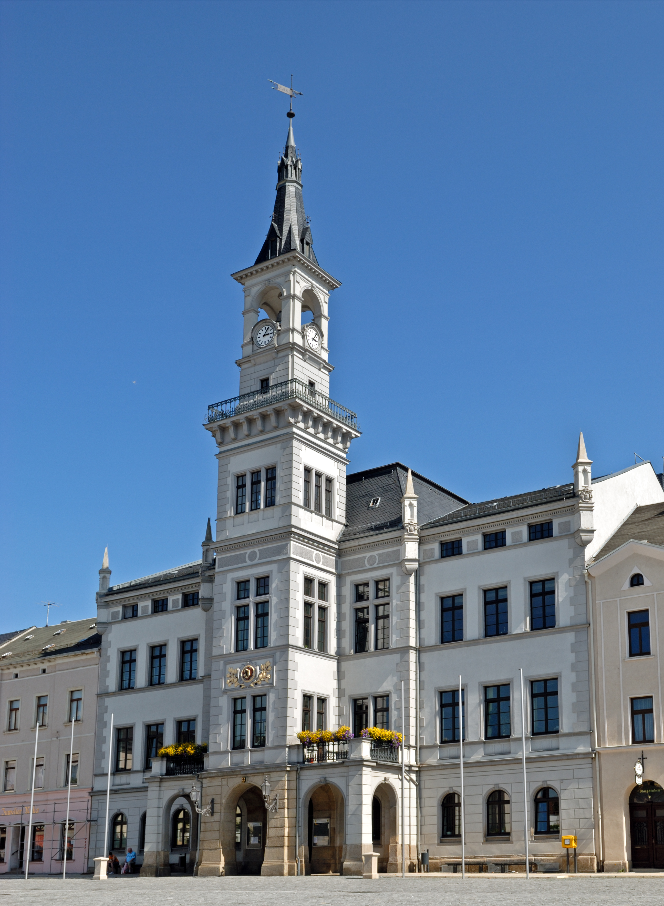 This image shows the town hall in Oelsnitz/Vogtl, Germany.